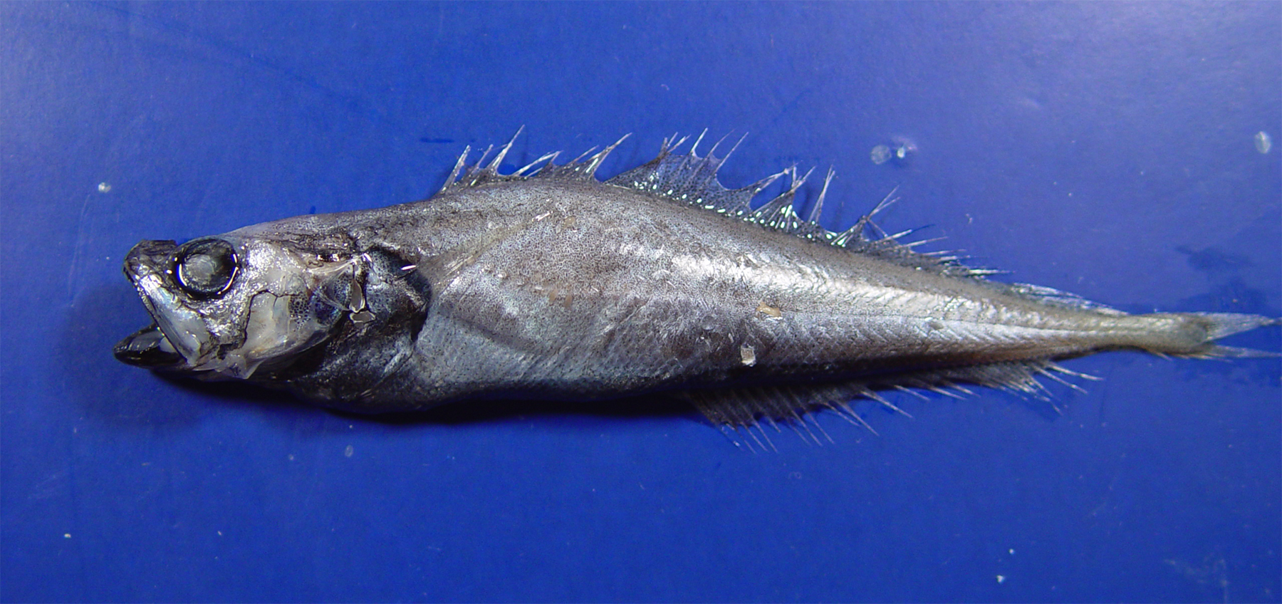 Gadella imberbis from the Gulf of Mexico